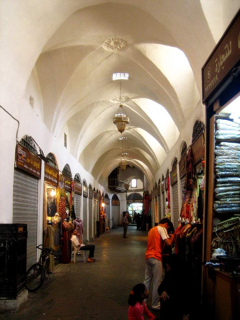 Souk al-Harir, Hims, Syria. Photograph by Abdullah Habbal.